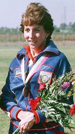 Army Reserve Captain Wanda R. Jewell, right, from Redstone Arsenal, Alabama, stands with gold medalist Wu Xiauxuan of Red China and silver medalist Ulrike Holmer of West Germany, after receiving a bronze medal in the small-bore rifle competition at the 1984 Summer Olympics.